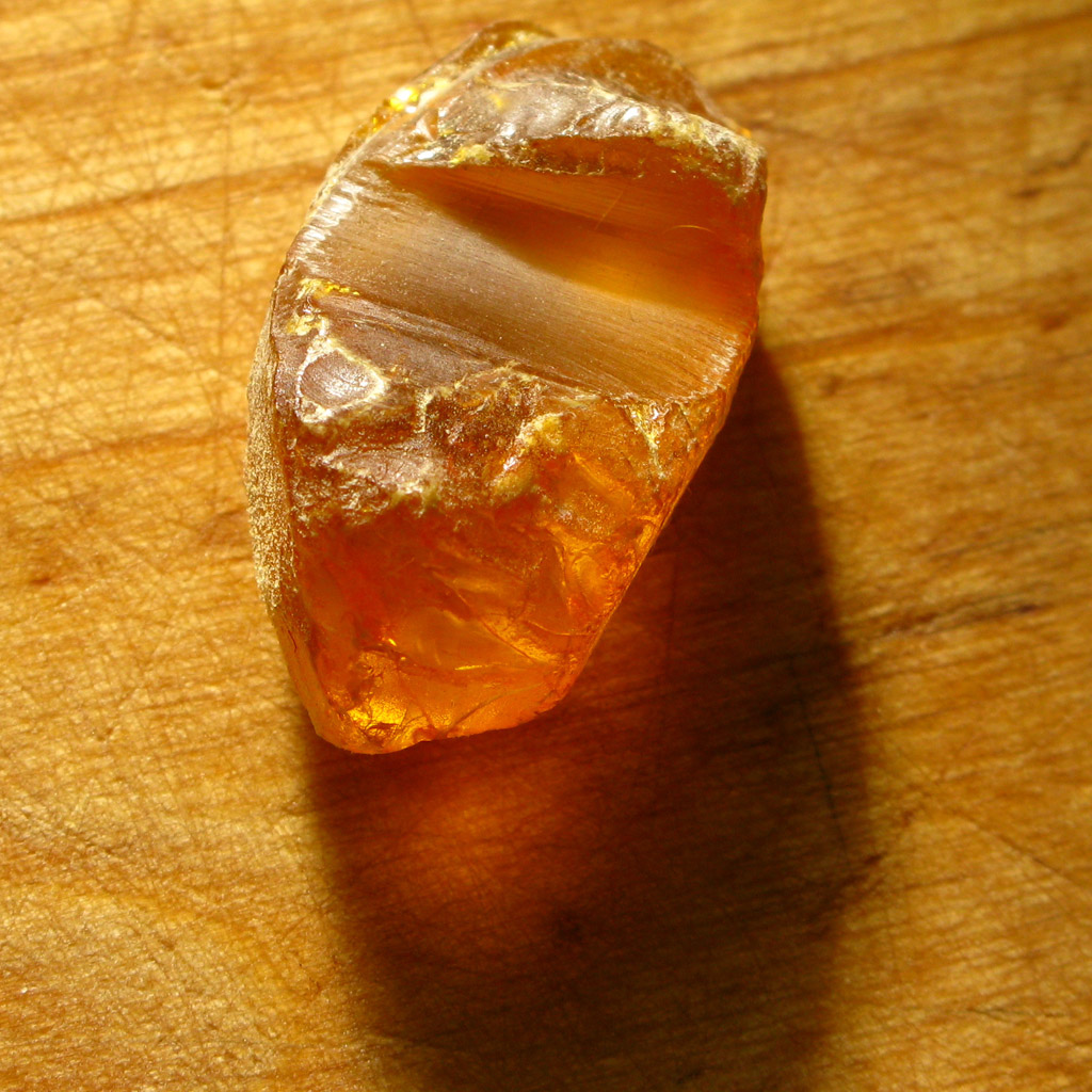 Resin. Or rosin? :D Канифоль we call it, here where the snow lies.